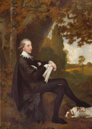 Oil painting on canvas, The Reverend Henry Case, later The Reverend Henry Case-Morewood (1746/7-1825), signed and dated bottom right: I. W. P. 82 [1782]. A full-length portrait of Henry Case, Rector of Ladbroke, Warwickshire who married Ellen Goodwin, widow of George Morewood, in 1793 when he assumed the name Morewood, in addition to his own. The Palmers, who inherited Alfreton Hall. Derbyshire and its contents from his wife's sister, were in no blood relation to him. He is seated to right beneath a tree in a landscape that rises to the right; he is dressed in 17th-century 'Van Dyck' costume of a black coat, breeches, and cloak and lace ruff; a book is supported on his knee. At his feet at the right a spaniel is asleep. This portrait and its pendant (NT1440718) date from the beginning of the period when Wright, by then less prolific as a portrait painter, was producing some of his best, and most naturalistic, likenesses. The pair of portraits were commissioned from the artist 11 years before the couple married. It is also a little incongruous that he employs the somewhat old-fashioned convention of 'Van Dyck' dress, but it may reflect some role-playing in the slightly curious relationship of the sitters.